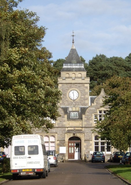 Leanchoil Hospital, Forres Seen from St Leonard's Way (B9010).